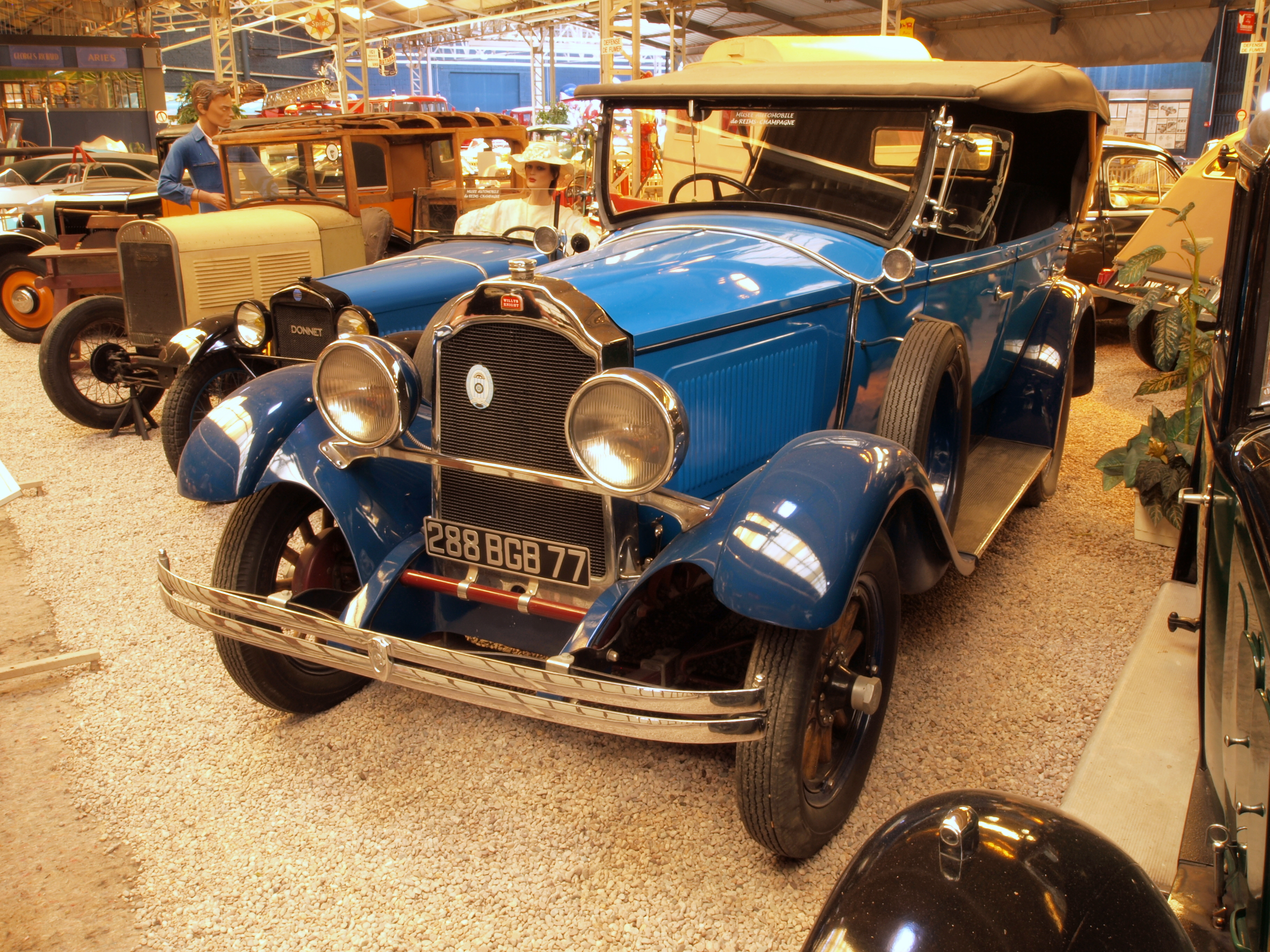 1930 Willys Knight